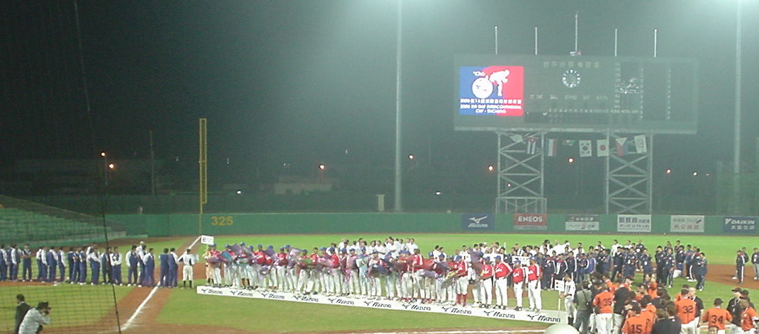 Cuba receiving their gold medal between silver medalists the Netherlands and bronze medalists Taiwan at the 2006 Intercontinental Cup in Taichung, Taiwan on November 19, 2006 Photo taken on November 19, 2006.